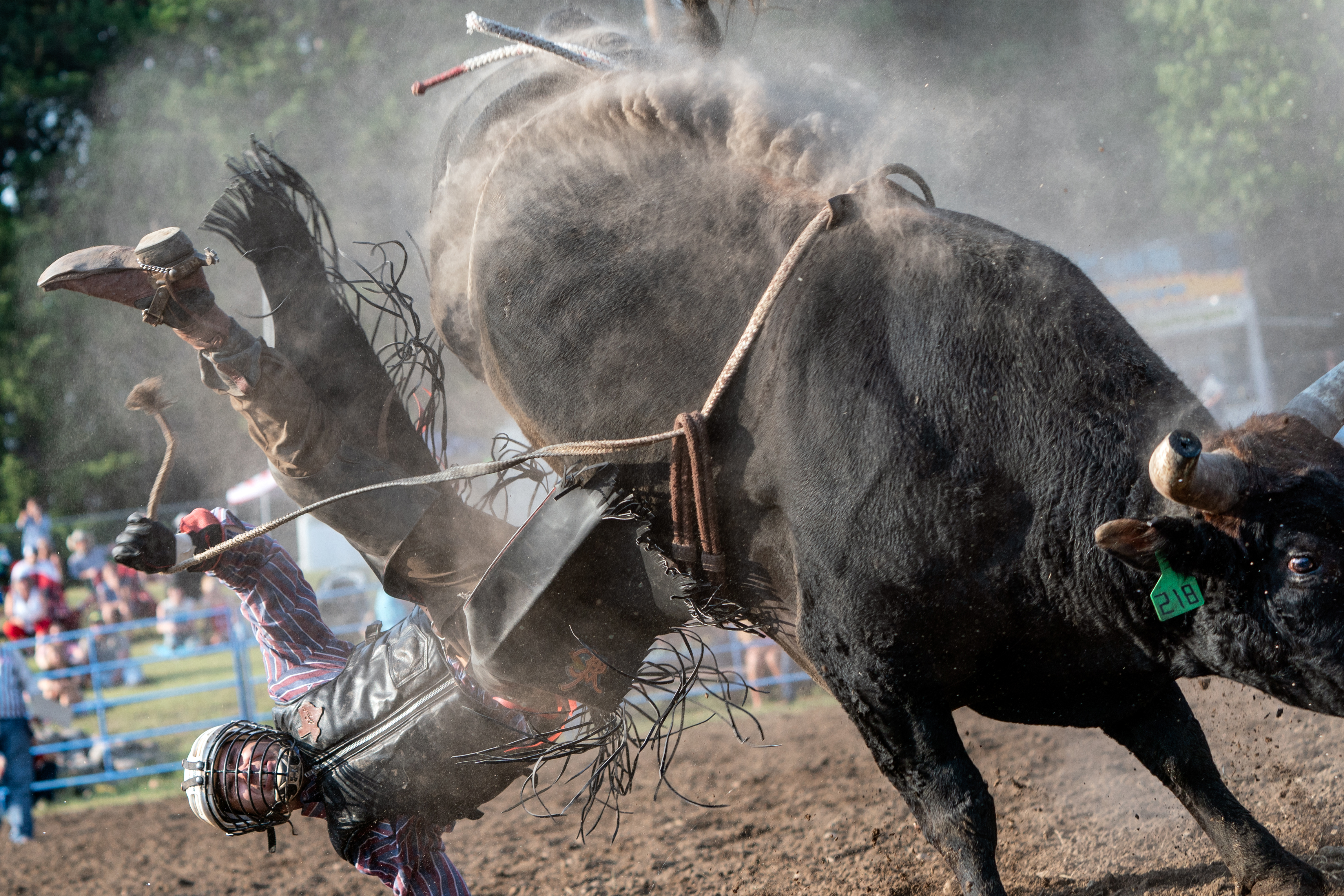 40th Annual Park Rapids PRCA/xtreme bulls rodeo & bull ride, Park Rapids Minnesota